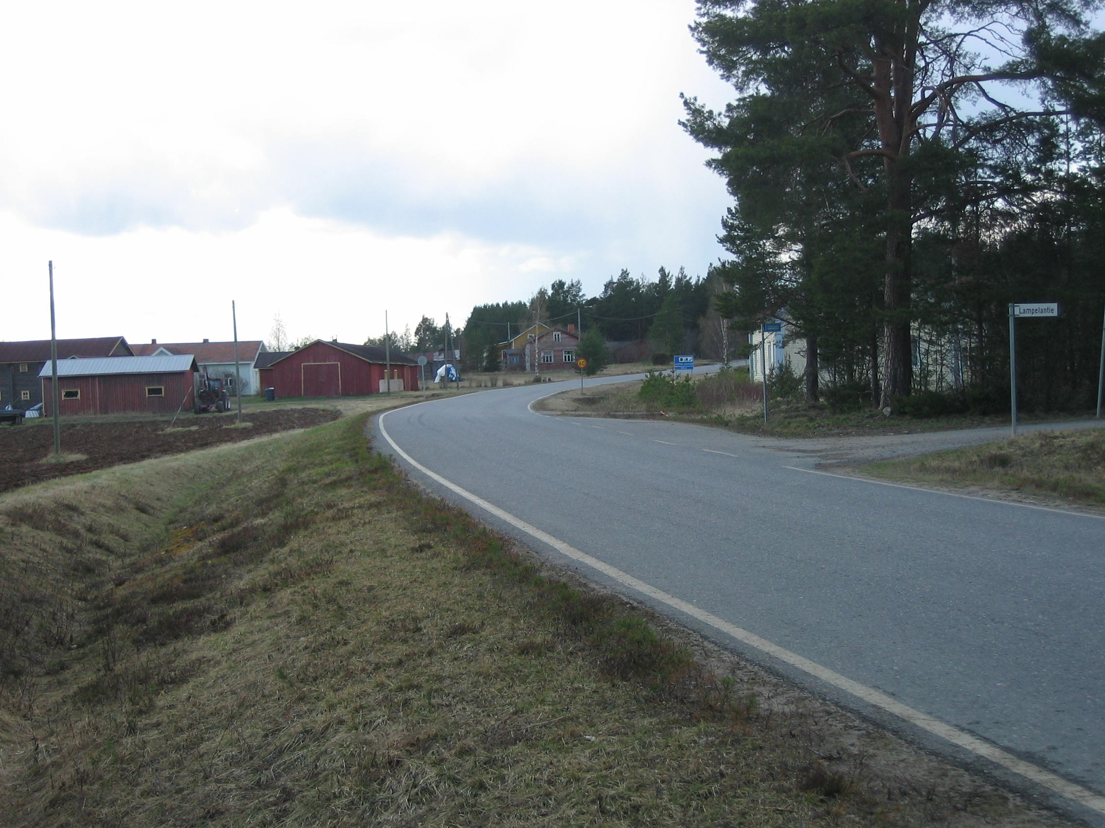 The Ylivuotto village centre in Ylikiiminki, Finland. Regional road 836 in the foreground.